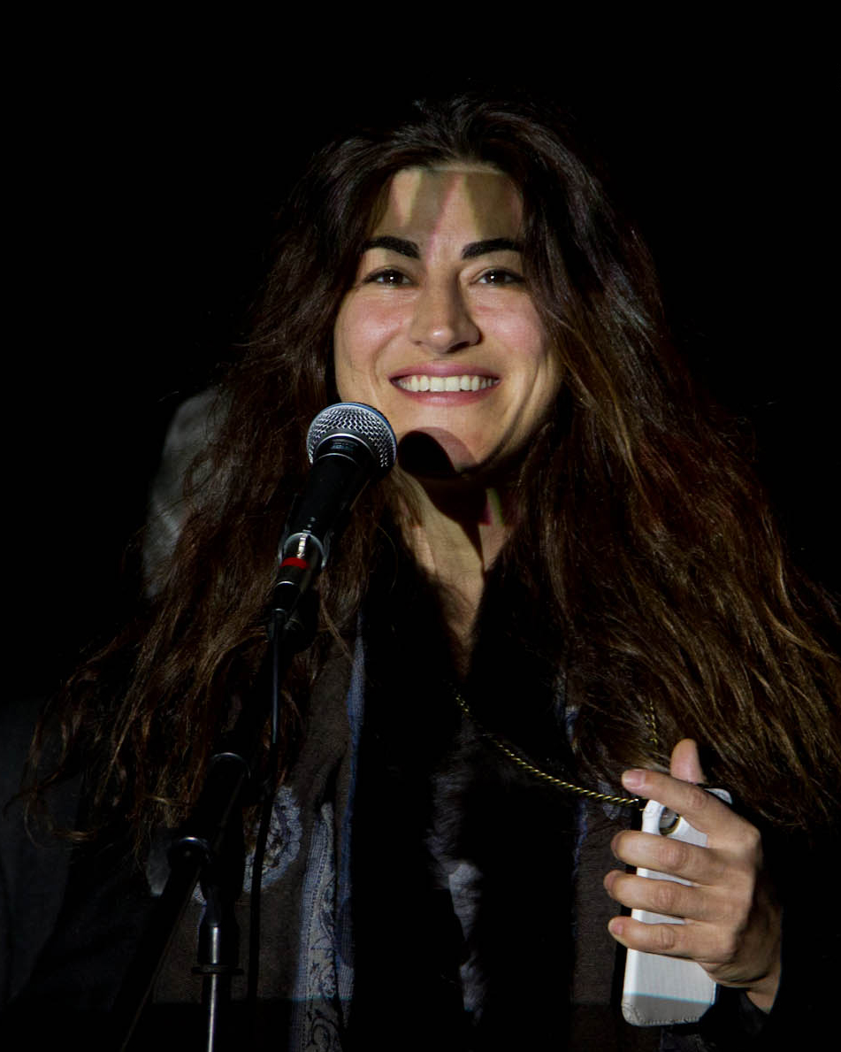 Jehane Noujaim at a screening of her documentary The Square in Mexico City. 30 January, 2014. Picture by Karloz Byrnison / Ambulante Film Festival.